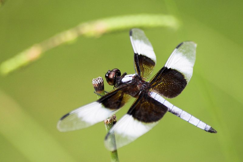 Widow Skimmer dragonfly, Libellula luctuosa (male)